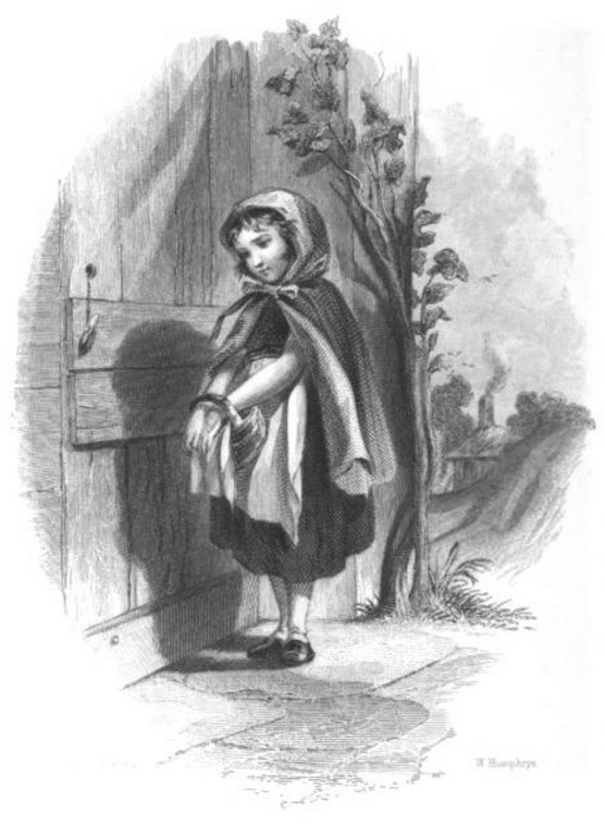 Illustration of "Little Red Riding Hood" from Poems by Frances Sargent Osgood - Carey & Hart, Philadelphia, 1850.